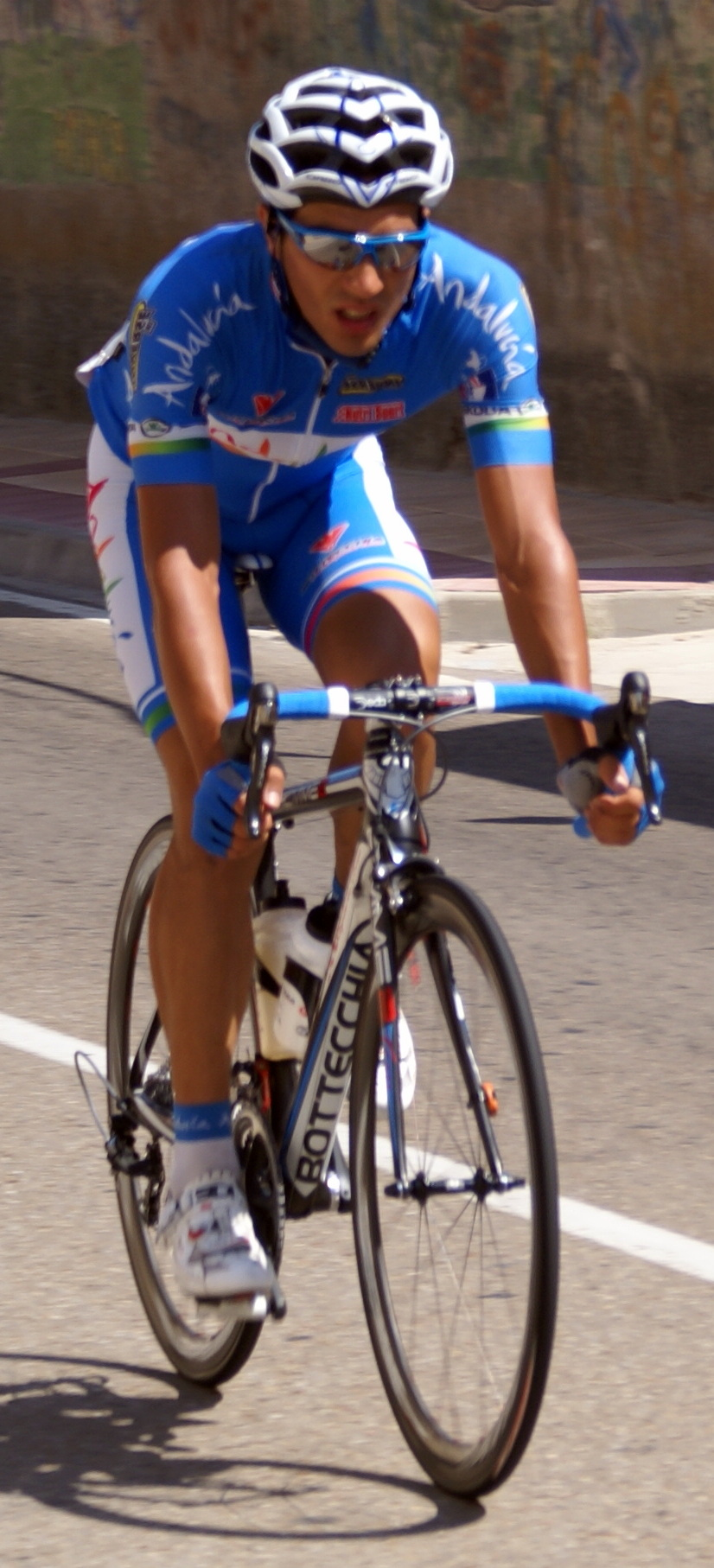 José Toribio Alcolea, Spanish cyclist, during the Vuelta a España 2012.